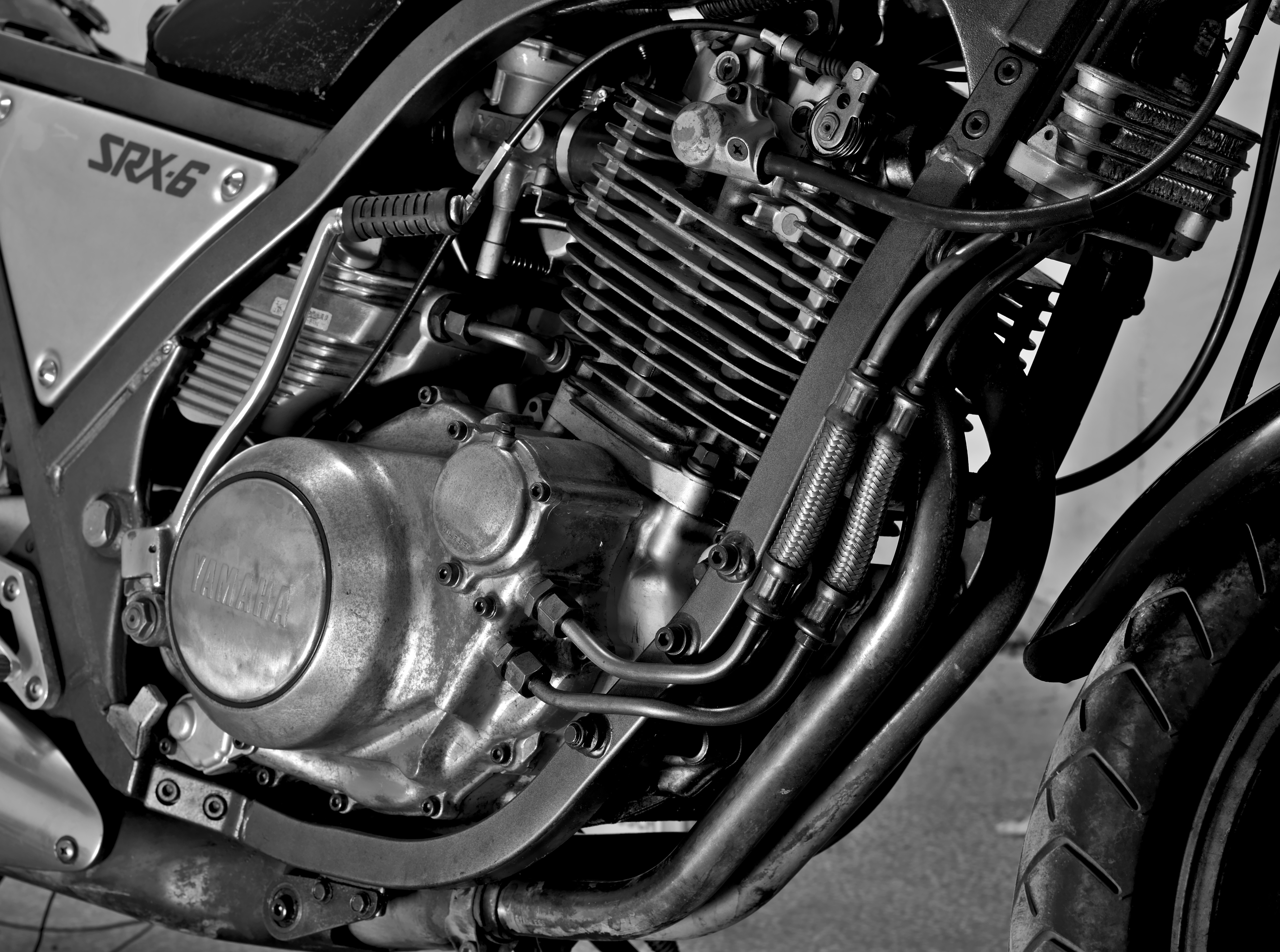 Detail view of a large (608cc) four-valve four-stroke single-cylinder air-cooled motorcycle engine. This engine is also equipped with an oil cooler, a kick start and has a dry-sump lubrication (with the oil reservoir visible just behind the kick start lever). The motorcycle in question is the Yamaha SRX600.